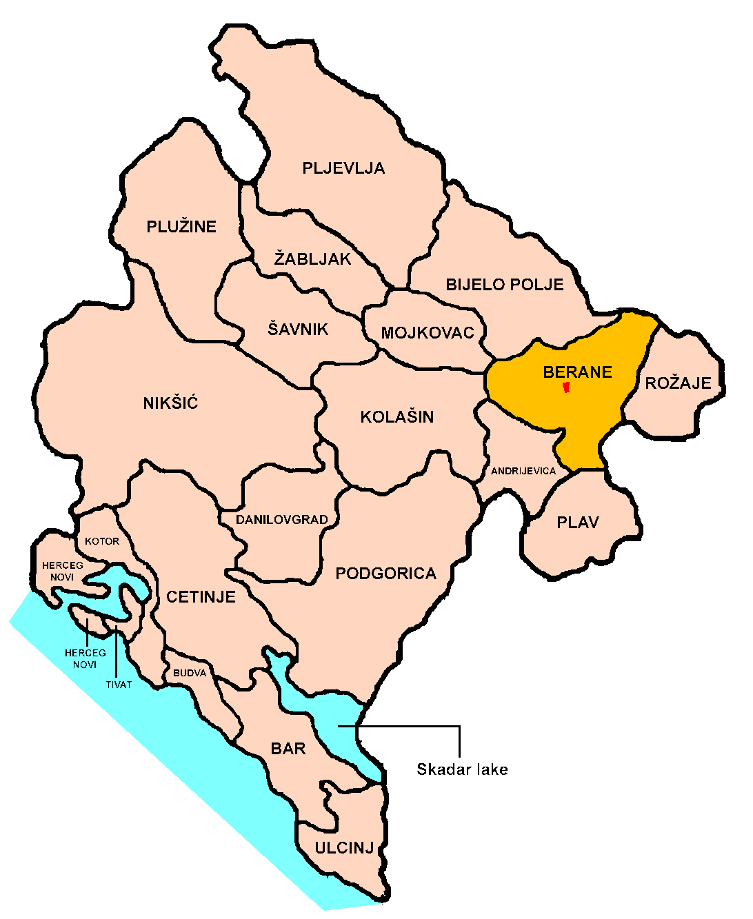 Location of Berane town and municipality within Montenegro